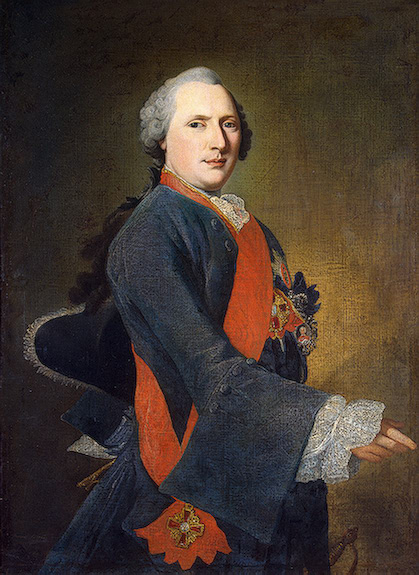 Portrait of Karl Sievers (1710-1774)